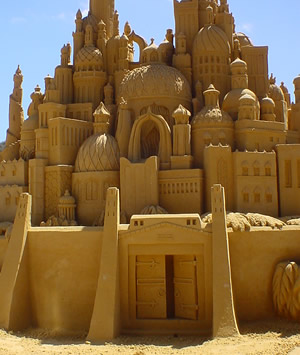 Intricate sand castle sculpture, approx. 10 feet high, in Victoria, Australia